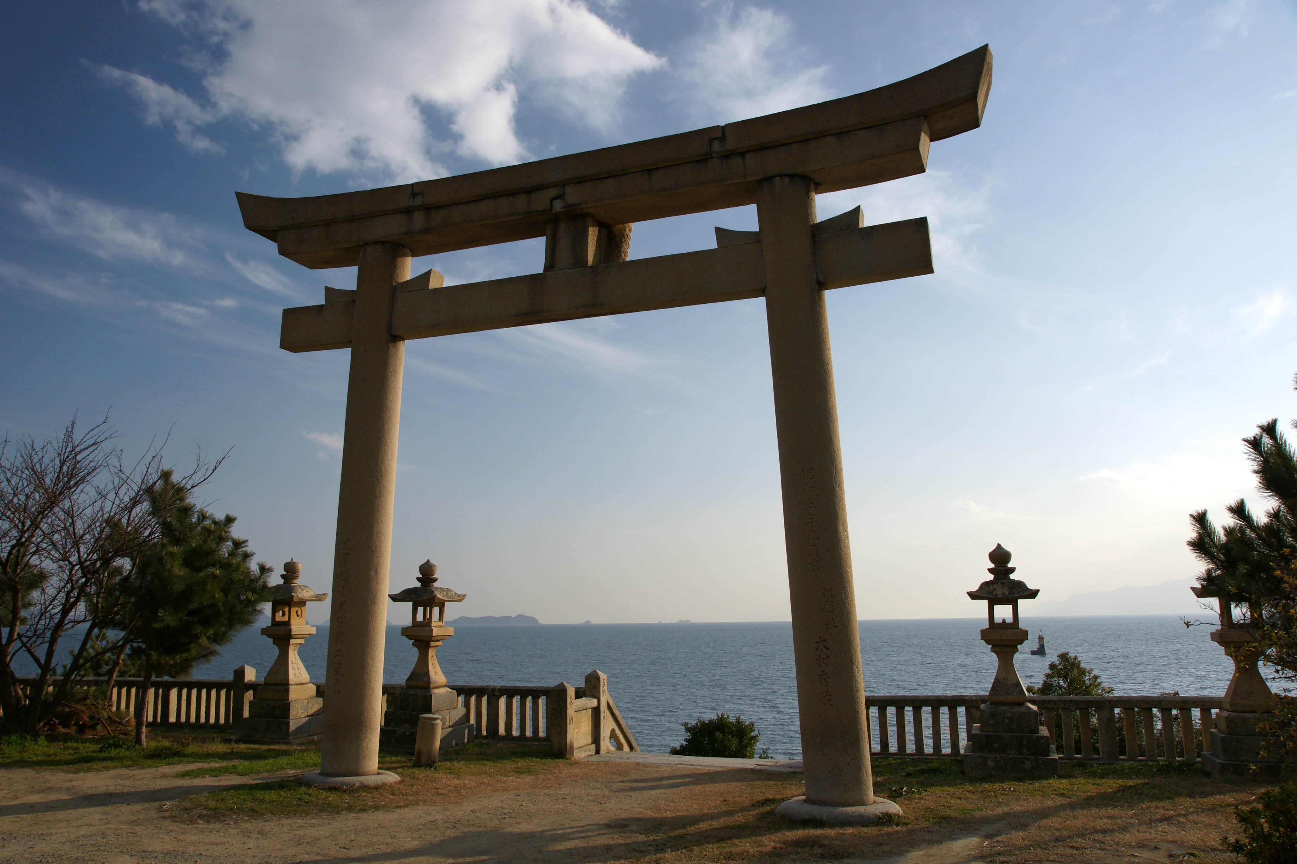 Iwatsuhime Shrine in Akō, Hyogo prefecture, Japan